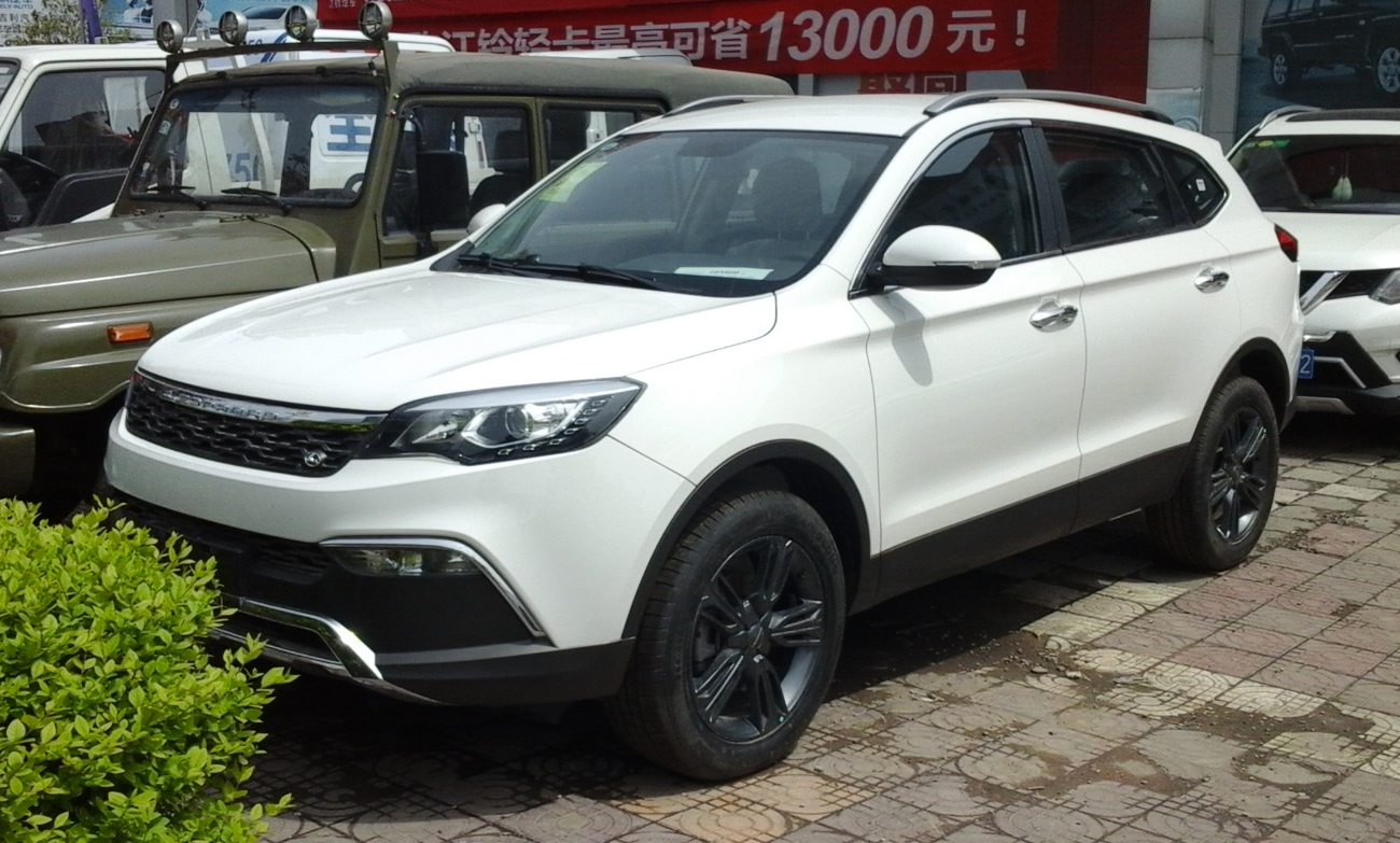 Leopaard CS10 photographed in Xi'an, Shaanxi province, China.